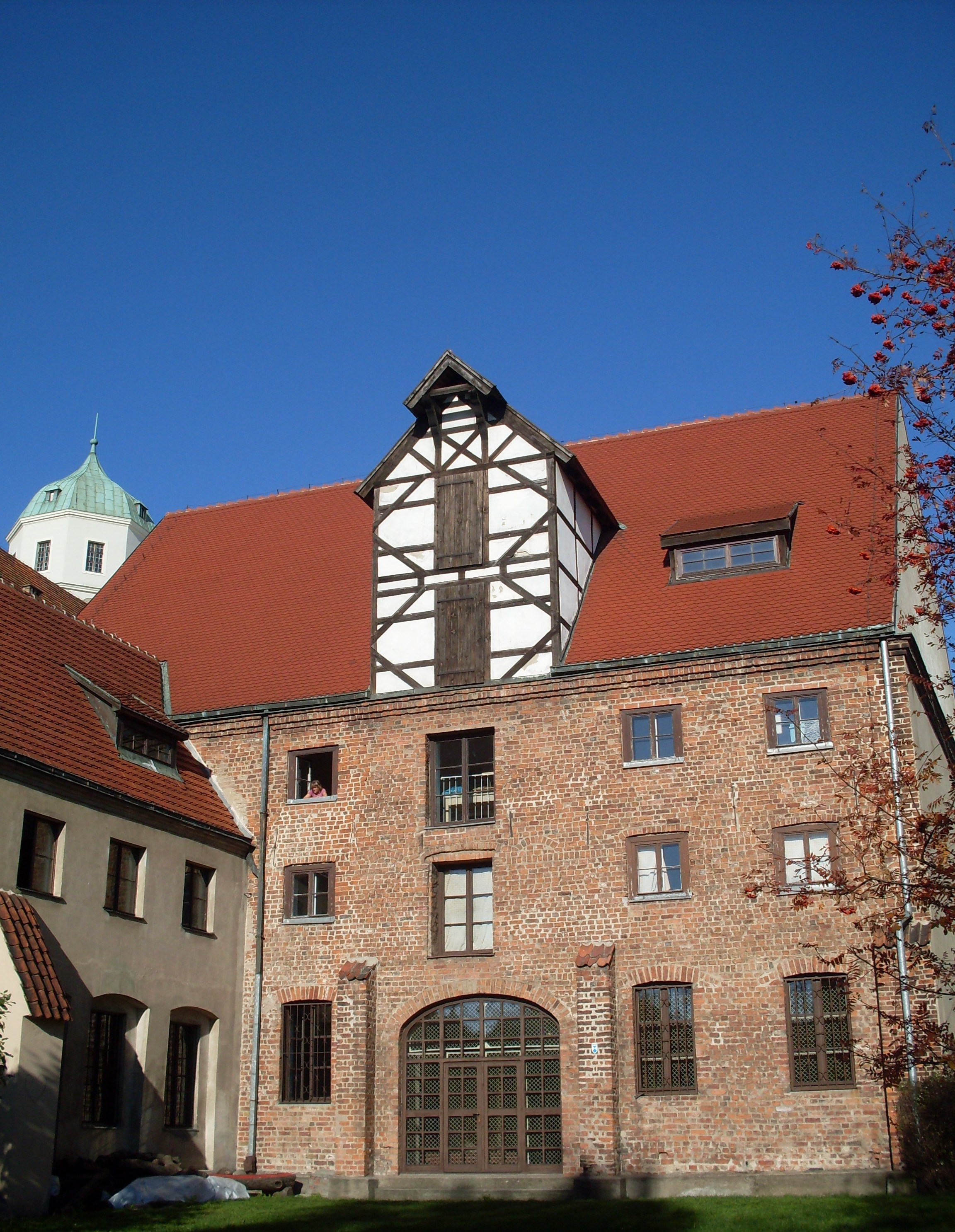 Szczecin, granary from 15th century on 2 Kurkowa Street